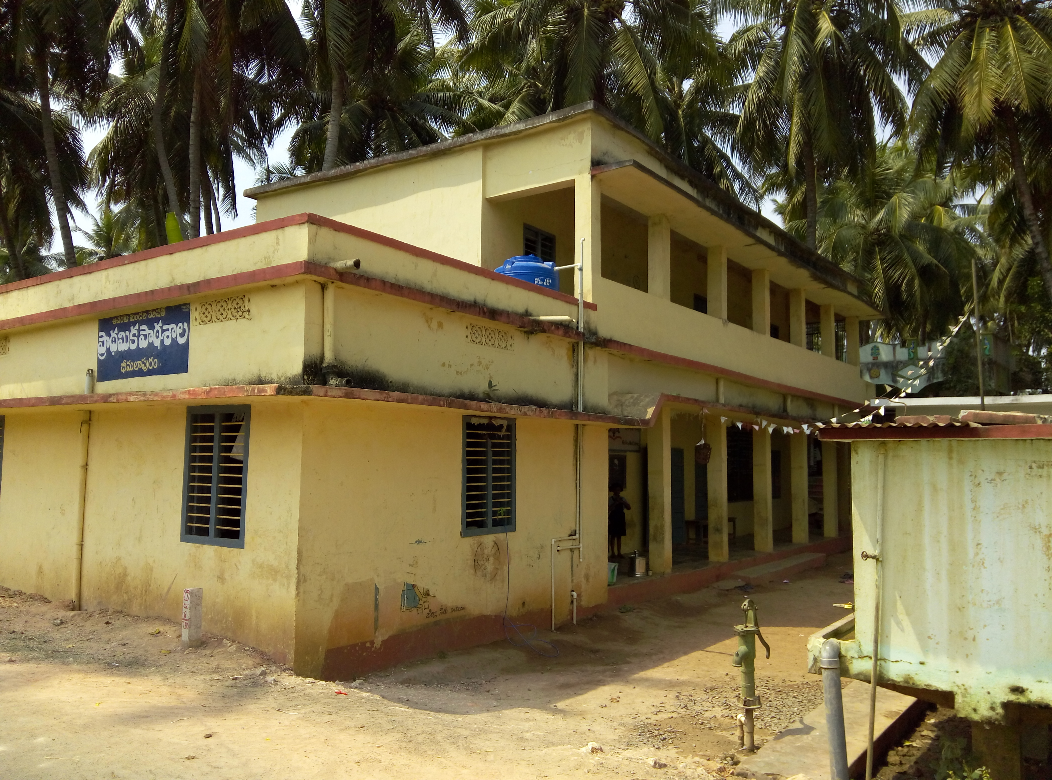 Bhimalapuram village of Achanta mandalam, Highschool